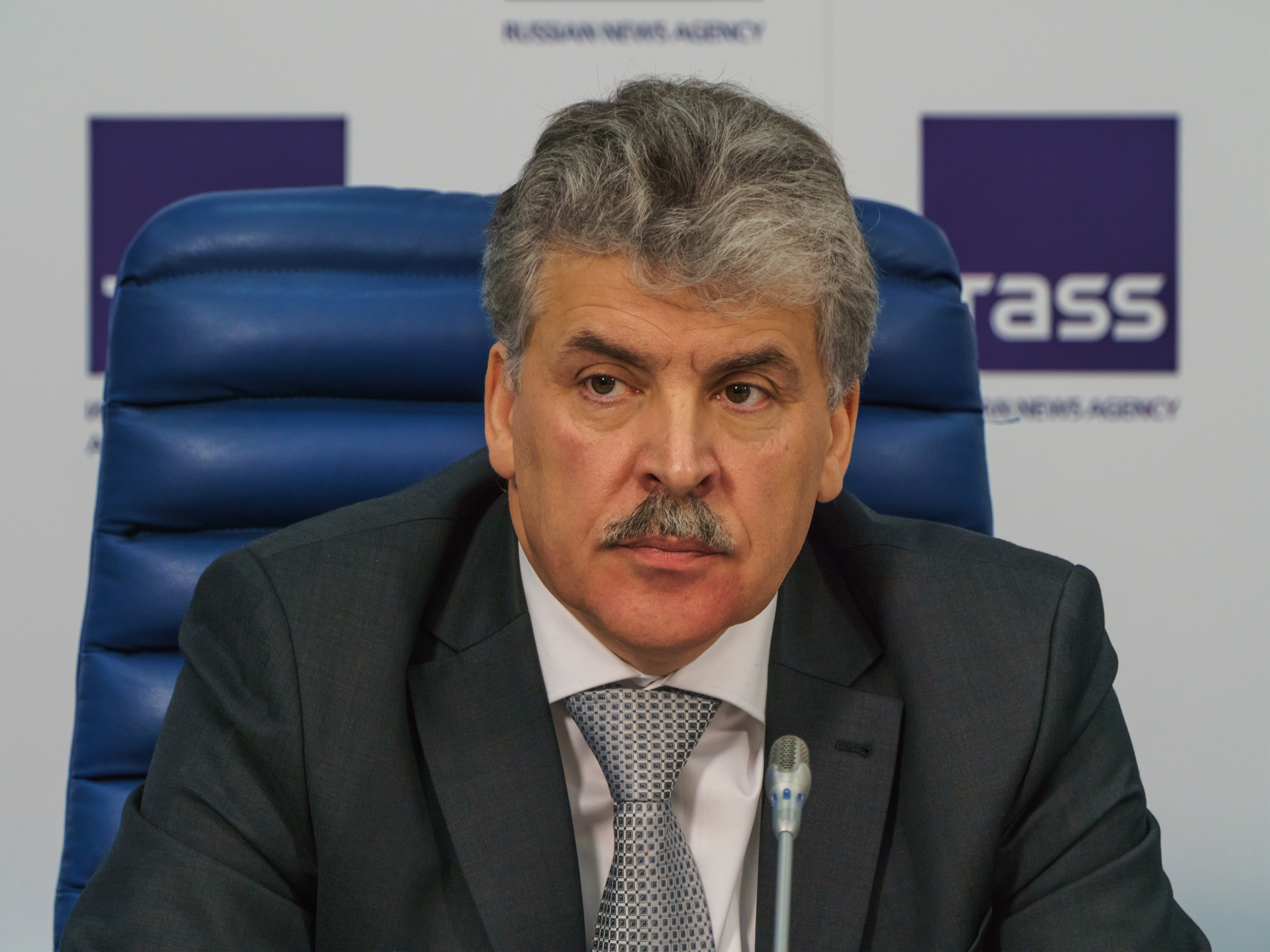 Pavel Grudinin (b. 1960) is a Russian politician, candidate for the 2018 presidential election. Photo taken at TASS press center, Moscow.